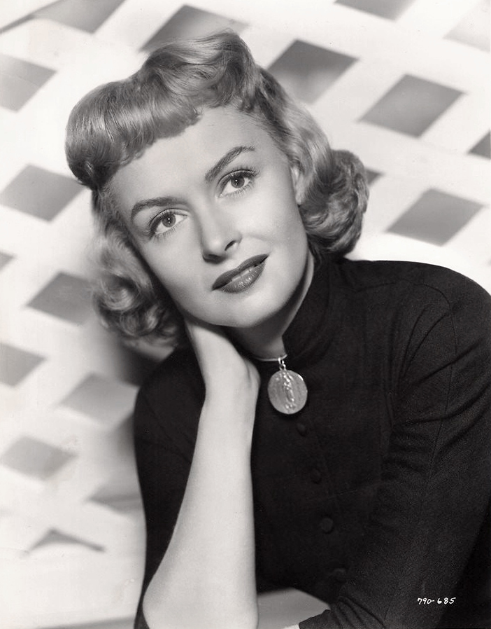 Publicity photo of Donna Reed